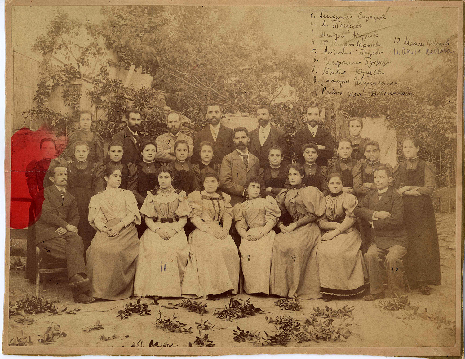 Bulgarian high school teachers in Solun or Thessaloniki